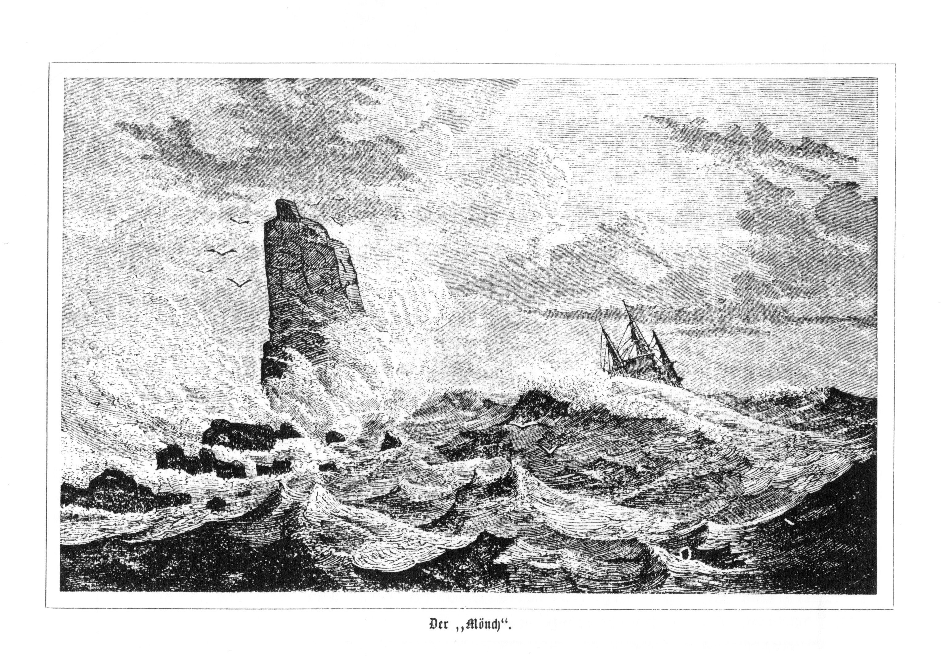 "Munkurin" (= the monk) was a stack south of the Faroe Islands. It collapsed 1884/85 and is also known under its name Sumbiarsteinur